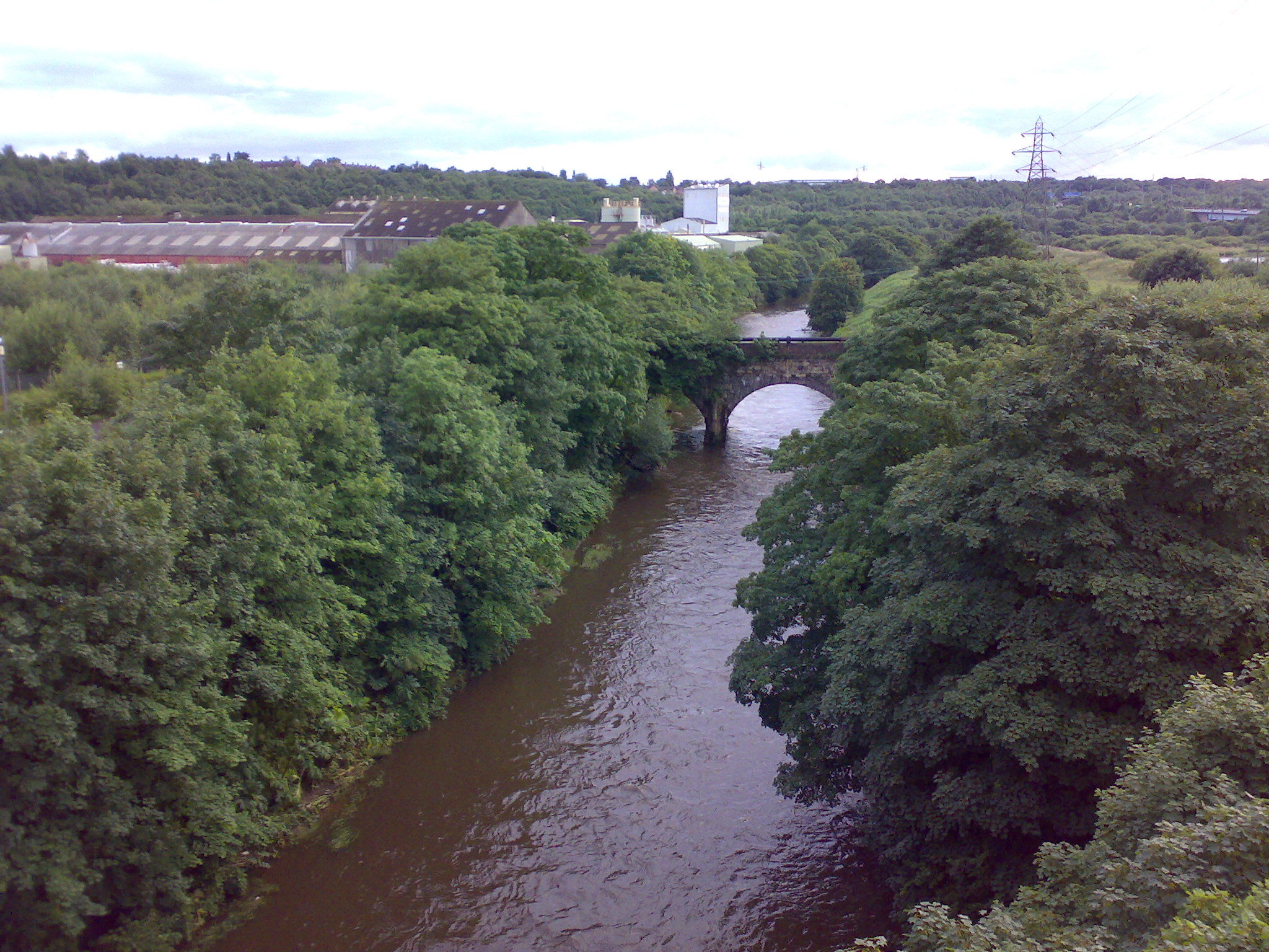 Clifton Aqueduct as seen from Clifton Viaduct